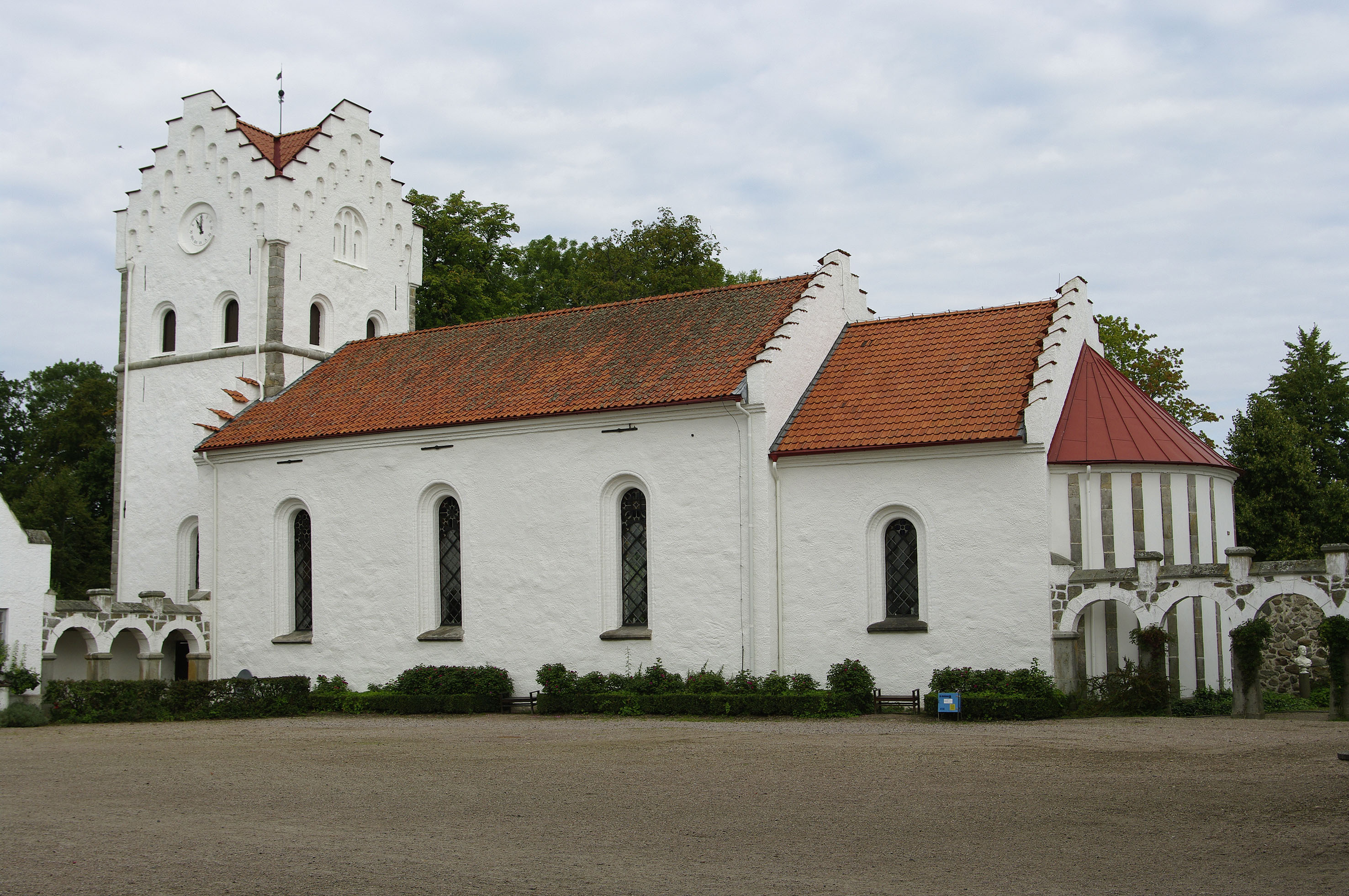 The church at the monastry of Bosjo in Scania, Sweden.